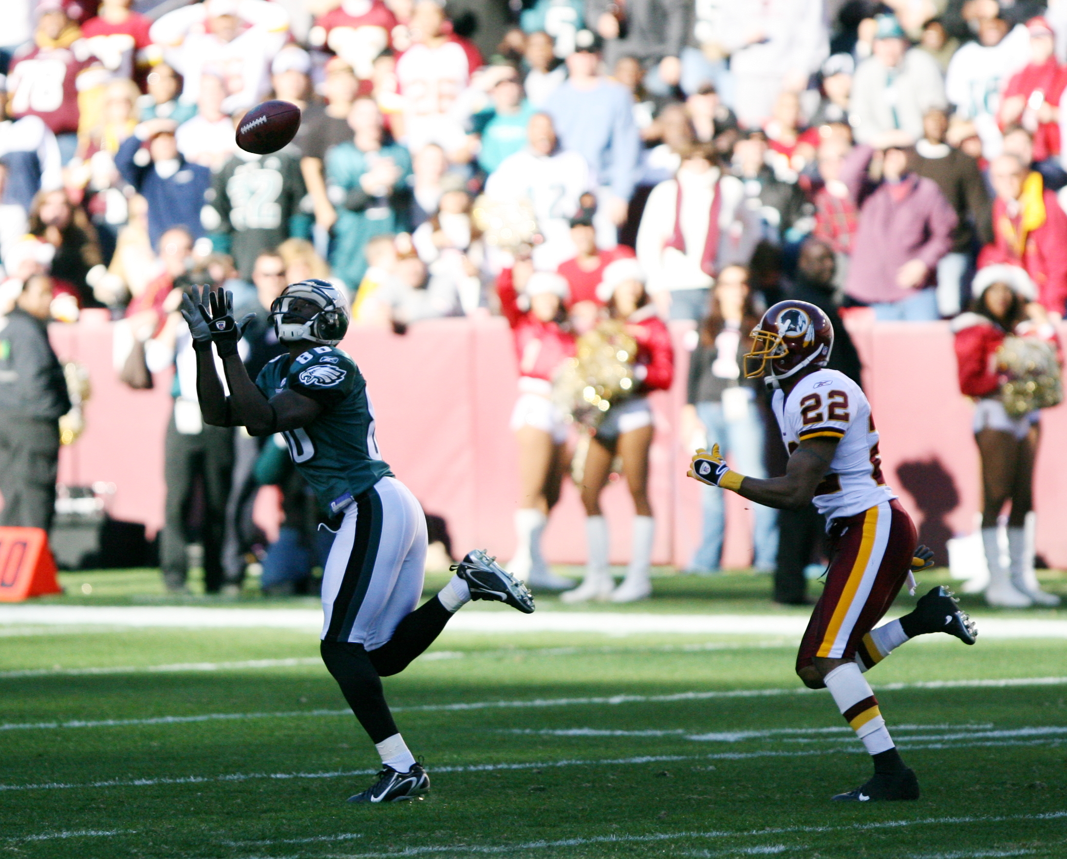 Reggie Brown of the Philadelphia Eagles goes for a catch in a game against the Redskins